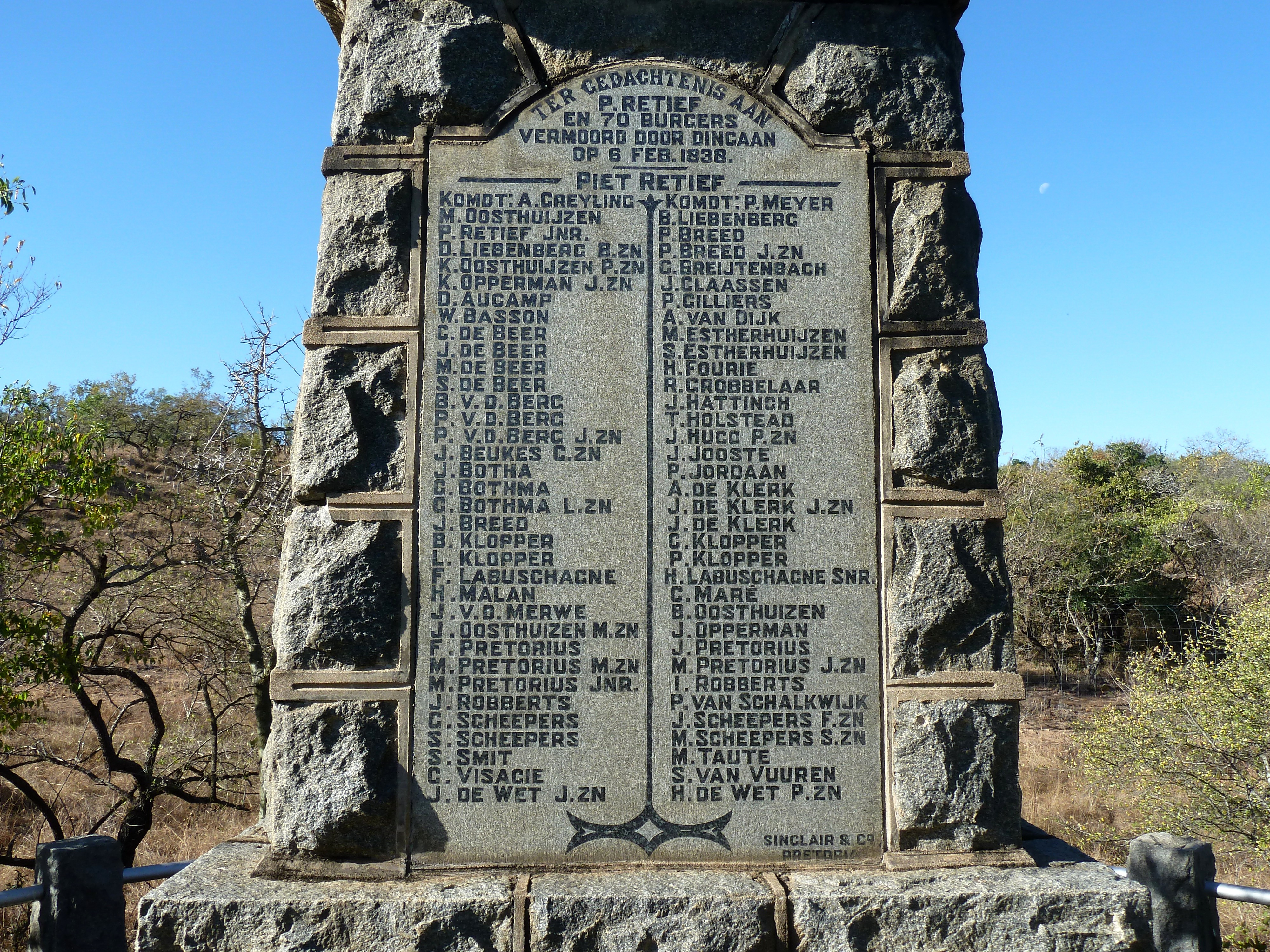 Inscription of the monument on Execution hill near uMgungundlovu that commemorates the slaughter of the voortrekker leader Piet Retief and his entourage of 72 men, 14 sons (3 youths) and 30 servants on 6 February 1838. The monument, dating from 1922, overlooks the mass grave in which the remains of the deceased were buried by the Wen commando on 21 December 1838. This media shows a South African Protected Site with SAHRA file reference 9/2/401/0002. Ter gedachtenis aan P. Retief en 70 burgers vermoord door Dingaan op 6 Feb. 1838. (In memory of P. Retief and 70 citizens murdered by Dingane on 6 Feb. 1838) 1. PIET RETIEF 2. Komdt: A. GREYLING Komdt: P. MEYER 3. M. Oosthuijzen B. Liebenberg 4. P. Retief JNR. P. Breed 5. D. Liebenberg & B. (Zn) P. Breed & J. (Zn) 6. K. Oosthuizen & P. (Zn) C. Breijtenbach 7. K. Opperman & J. (Zn) J. Claassen 8. D. Aucamp P. Cilliers 9. W. Basson A. van Dijk 10. C. de Beer M. Estherhuizen 11. J. de Beer S. Estherhuizen 12. M. de Beer H. Fourie 13. S. de Beer R. Grobbelaar 14. B. v.d. Berg J. Hattingh 15. P. v.d. Berg T. Holstead 16. P. v.d. Berg & J. (Zn) J. Hugo & P. (Zn) 17. J. Beukes & C. (Zn) J. Jooste 18. J. Botha P. Jordaan 19. G. Bothma A. de Klerk 20. G. Bothma & L. (Zn) J. de Klerk & J. (Zn) 21. J. Breed J. de Klerk 22. B. Klopper C. Klopper 23. L. Klopper P. Klopper 24. F. Labuschagne H. Labuschagne SNR. 25. H. Malan C. Maré 26. J. v.d. Merwe B. Oosthuizen 27. J. Oosthuizen & M. (Zn) J. Opperman 28. F. Pretorius J. Pretorius 29. M. Pretorius & M. (Zn) M. Pretorius & J. (Zn) 30. M. Pretorius JNR. I. Robberts 31. J. Robberts P. van Schalkwijk 32. G. Scheepers J. Scheepers & F. (Zn) 33. S. Scheepers M. Scheepers & S. (Zn) 34. S. Smit M. Taute 35. C. Visagie S. van Vuuren 36. J. de Wet & J. (Zn) H. de Wet & P. (Zn) Op dieselfde dag is meer as dertig agterryers saam met Retief en sy volgelinge by Dingaanstat vermoor.